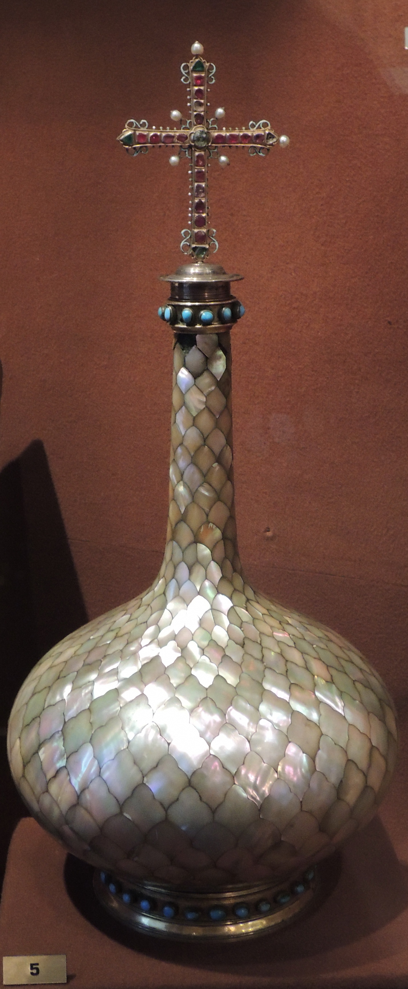 Chrismarium (container for Chrism). The vessel is named "Alabaster" (Алавастр) in reference to Matthew 26:7 (Patriarchal Residence, Moscow Kremlin).